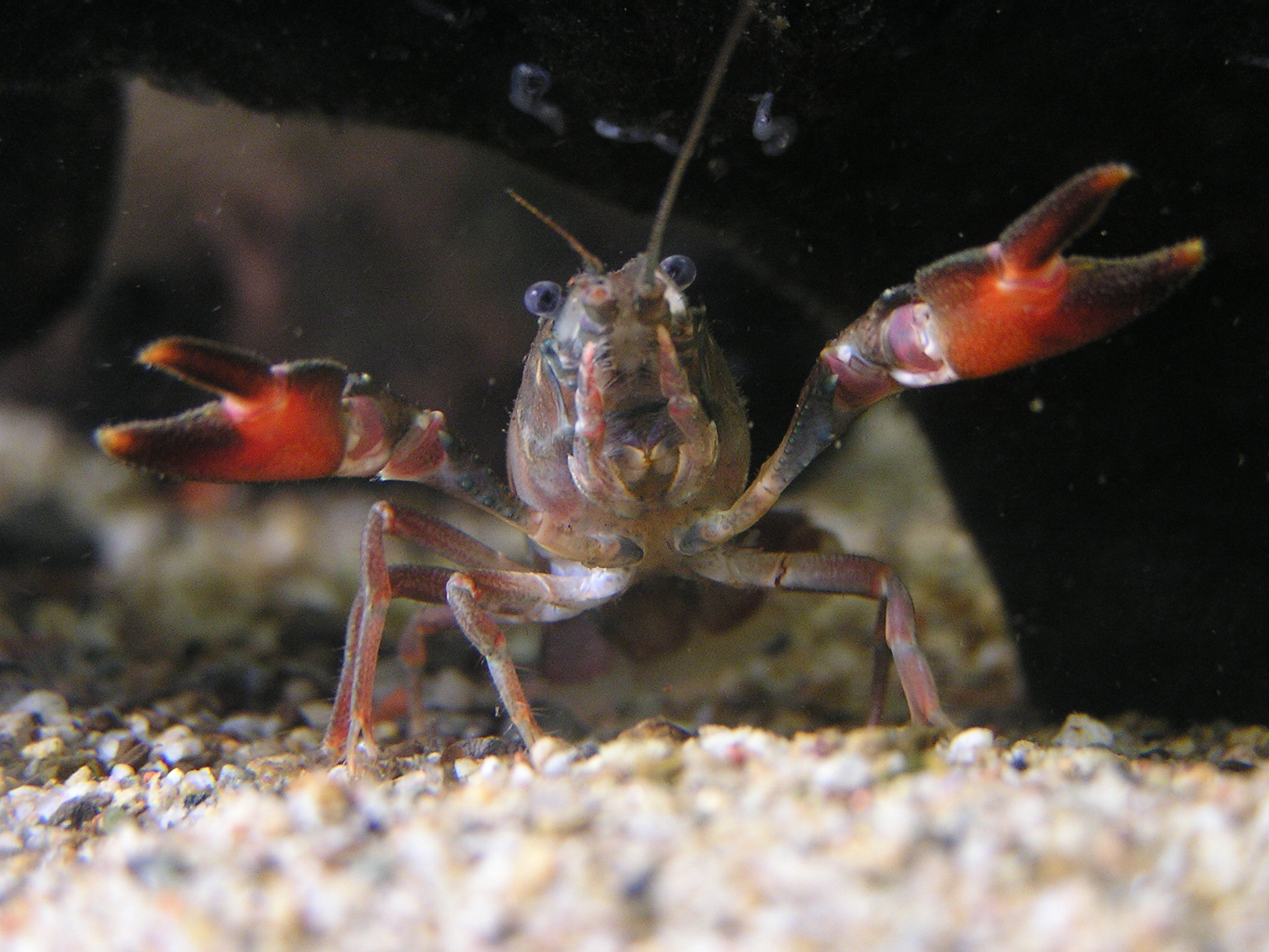 Signal crayfish (juvenile) in aqurium, feels threatened by the camera